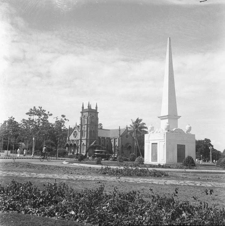 The Memorial Obelsisk, raised in memory of the British and Indian troops who fell at the siege of Bangalore in 1791. The Hudson Memorial Church can be seen in the background.